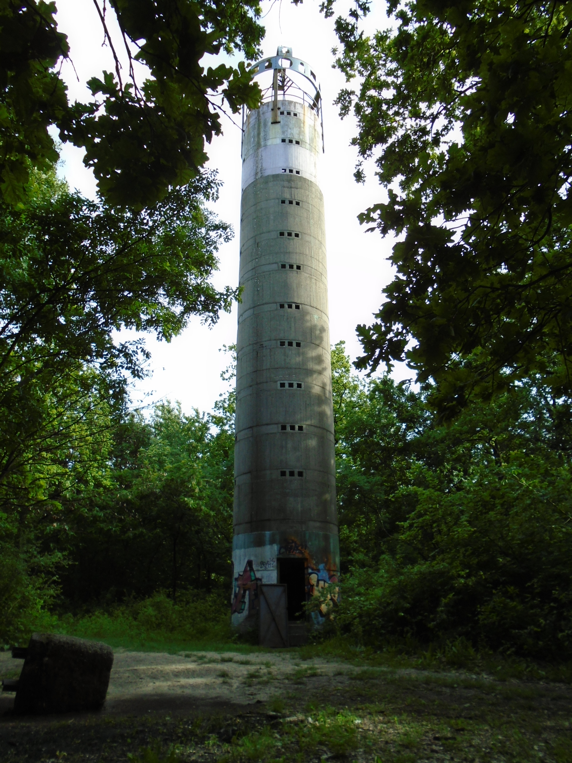 Observation tower in Szada (on the Margita).